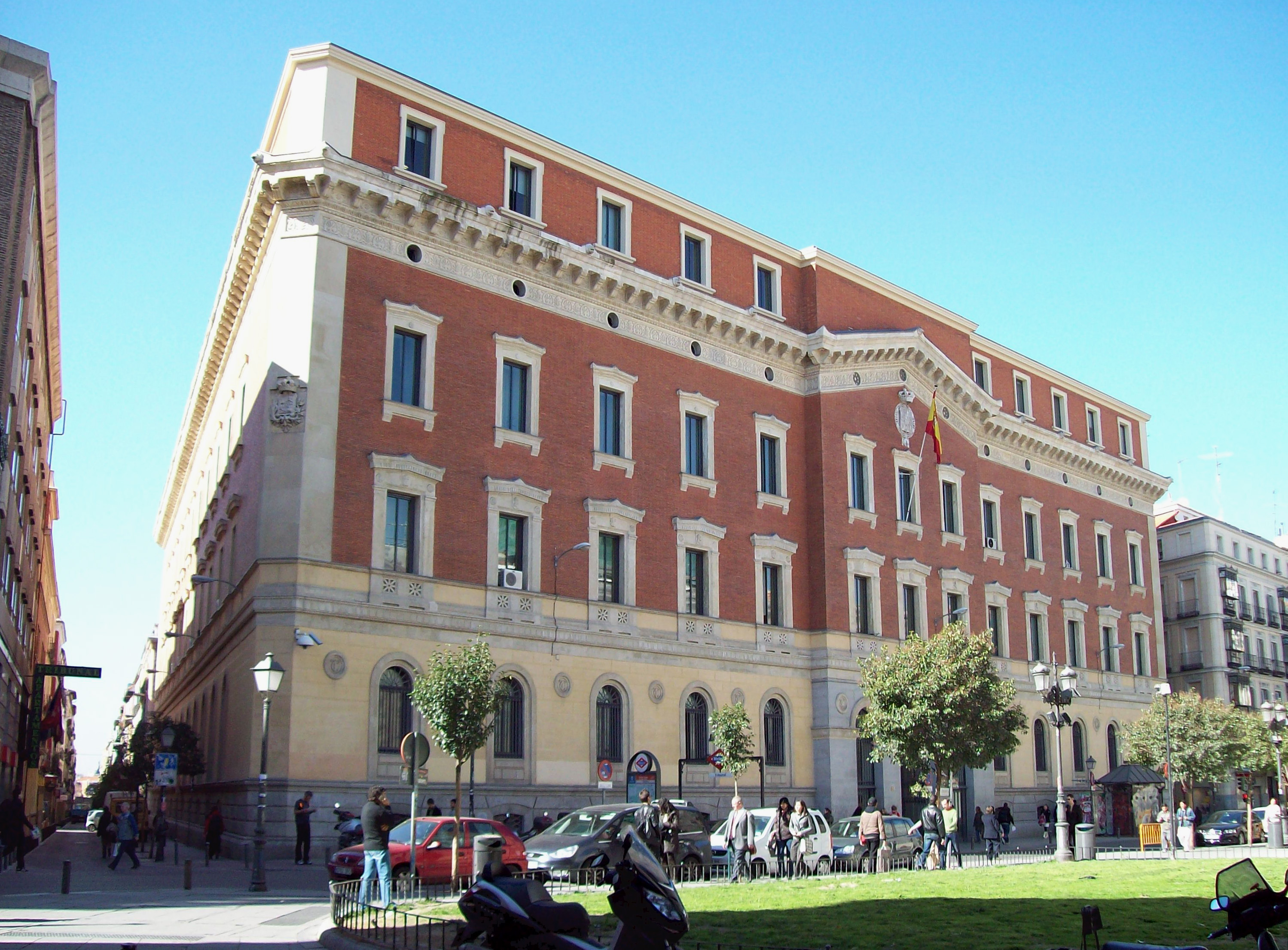 East façade of the Spanish Court of Accounts' seat, at 81 Calle de Fuencarral (street) in Centro district in Madrid. Building was projected in 1860 by architect Francisco Jareño, and built from 1860 to 1863.